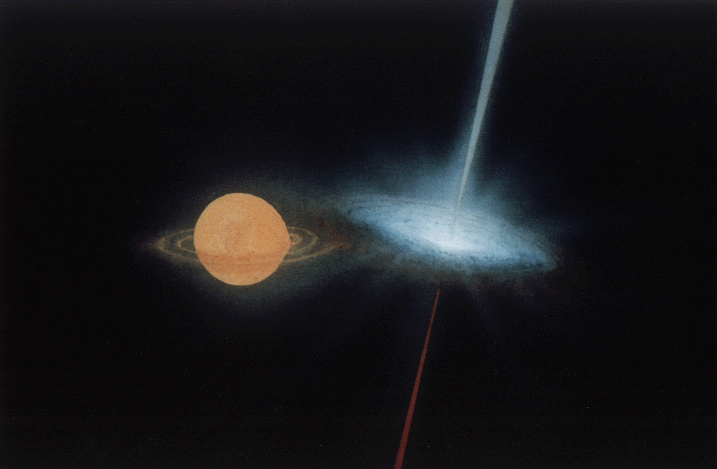 Public domain work of NASA artist. Selected as Astronomy Picture Of The Day for March 6, 1996, .